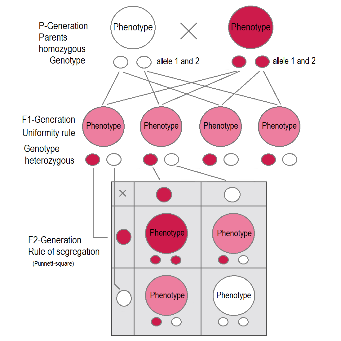 Crossing of two different homozygous individuals and their first and second progeny generation in incomplete dominant inheritance